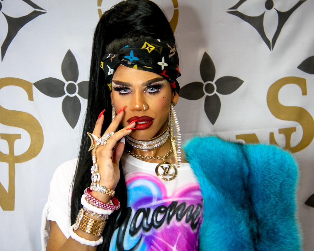 Naomi Smalls at RuPauls Dragcon 2017